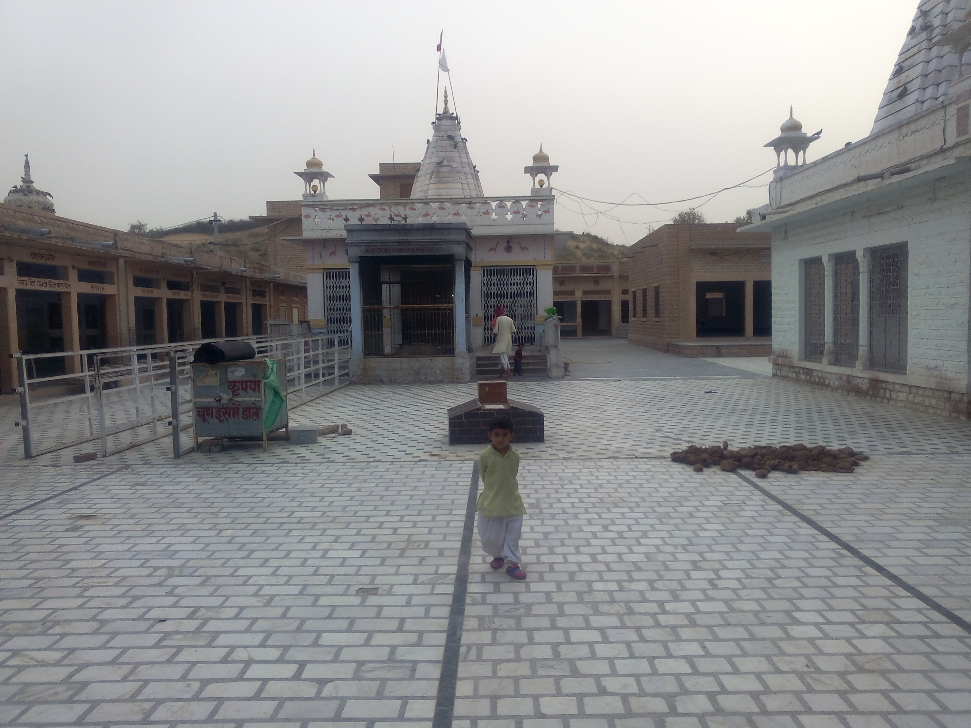 it is Baba_hariaram_jhorda_temple at Jhorda.